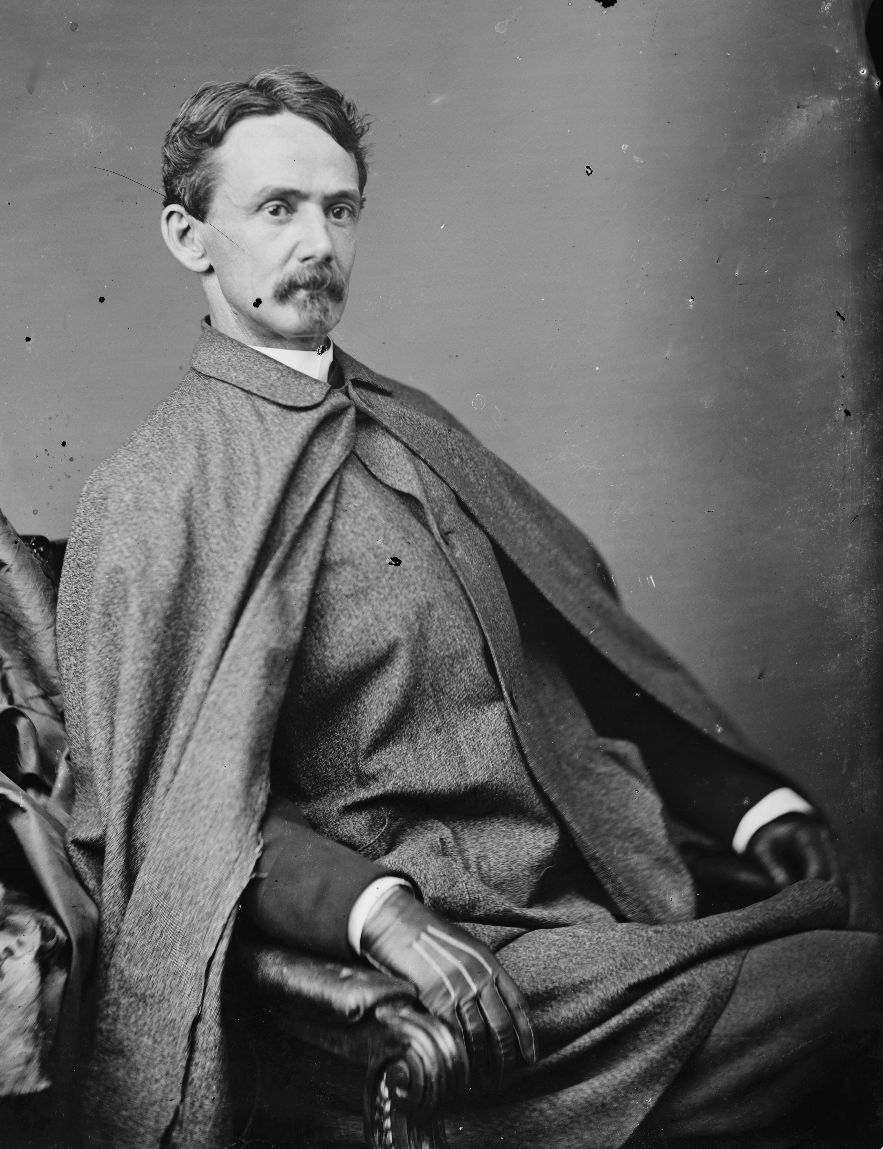 John James Ingalls. Library of Congress description: "Ingalls, Hon. John J. Sen of Kansas (photographed March 12, 1873)".